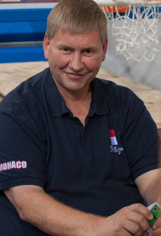 Geir Helgemo from Monaco alwys has a smile !